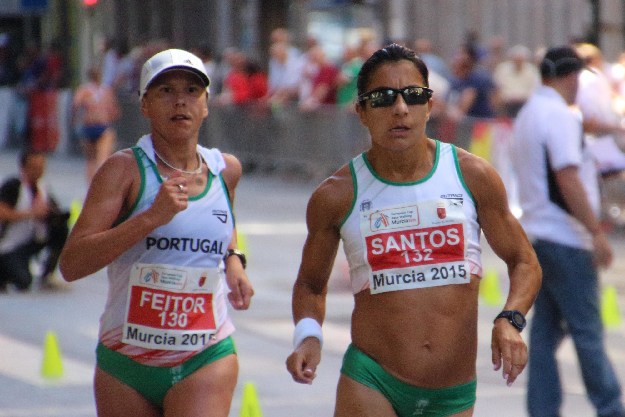 Susana Feitor (130) and Vera Santos (132) portuguese in the European Cup Race Walking 2015 (Murcia, Spain).